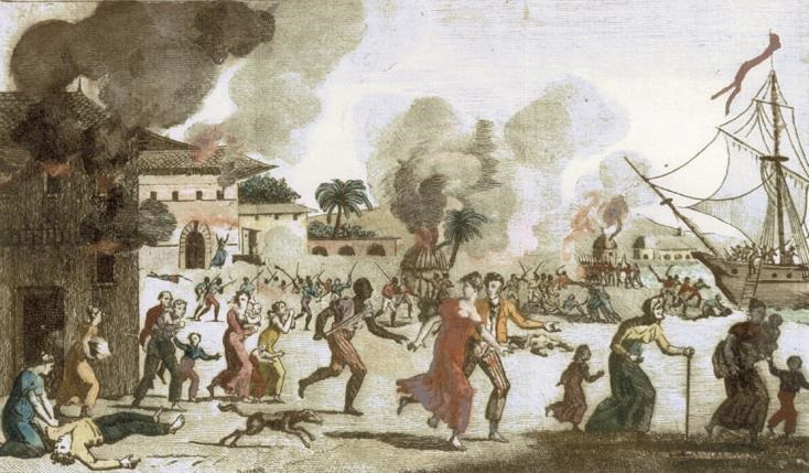 "Burning of Cape Français. General revolt of the Blacks. Massacre of the Whites." ("Incendie du Cap. Revolte générale des Négres. Massacre des Blancs") As described on the original portrait: [Frontispiece from the book Saint-Domingue, ou Histoire de Ses Révolutions. ca. 1815.jpg]